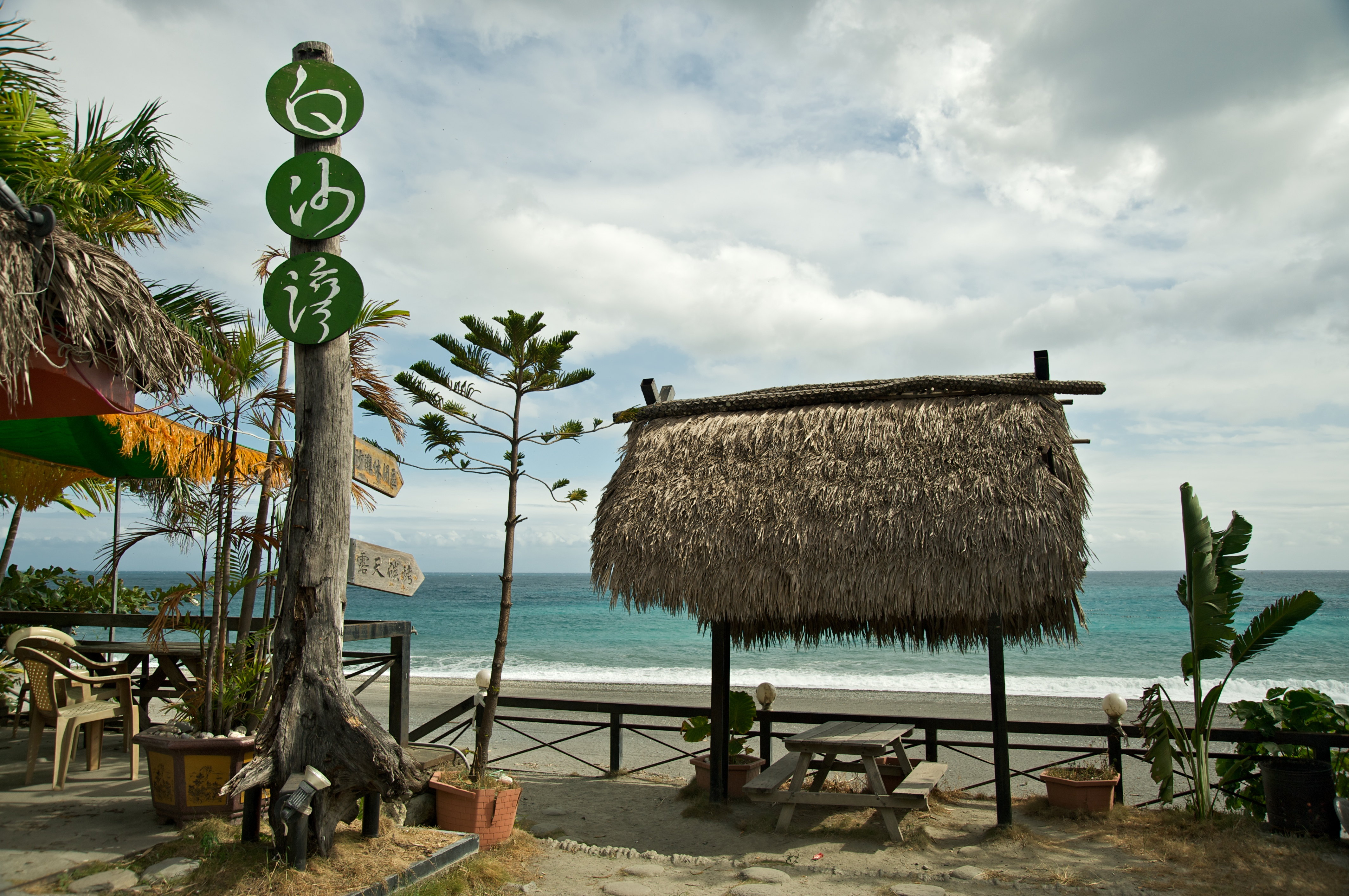 Self-proclaimed White Sand Bay at Taimali Township in Taitung County, Taiwan Province, Republic of China